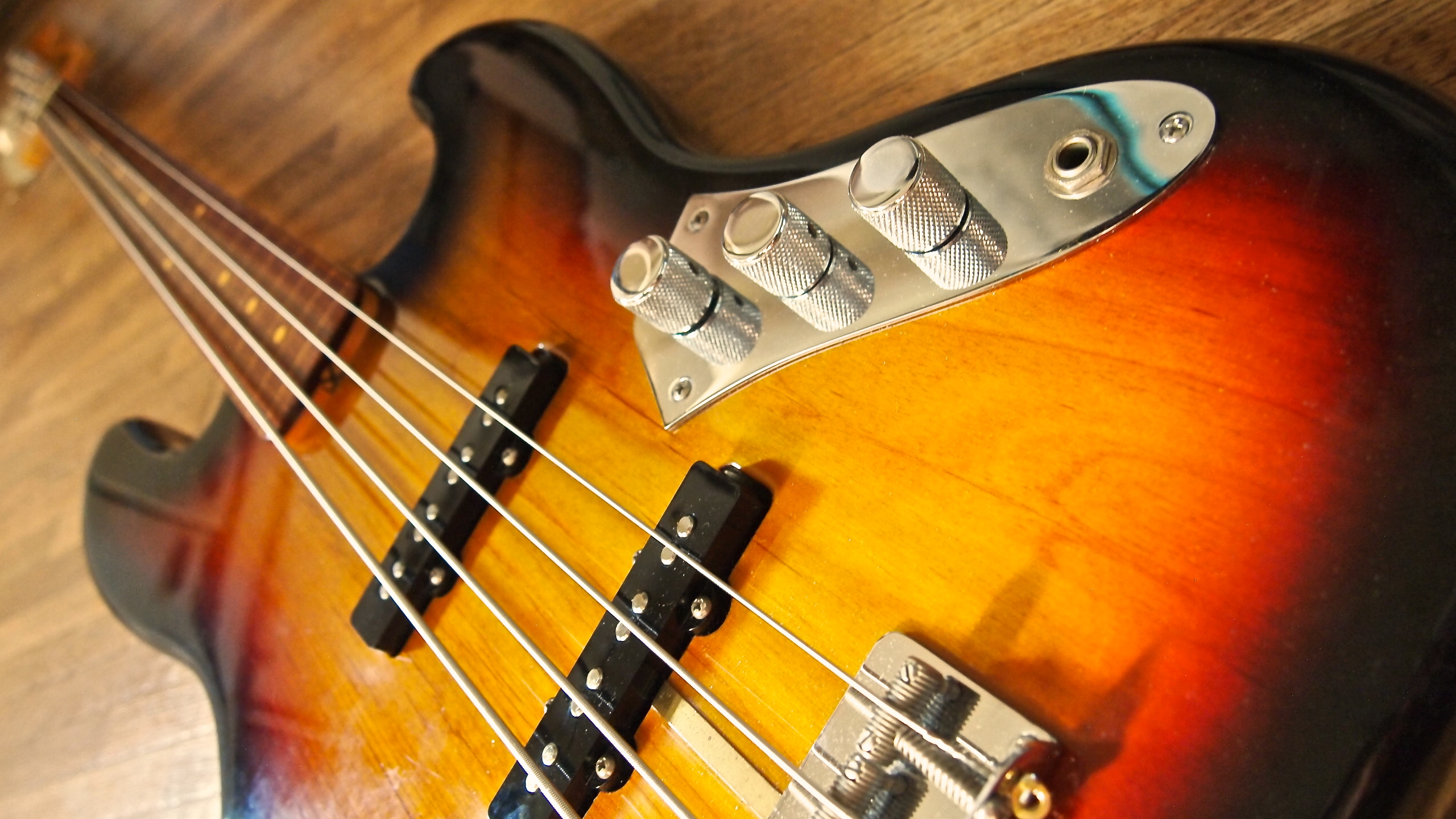 Fender Jaco Pastorius Jazz Bass FL 3color Sunburst